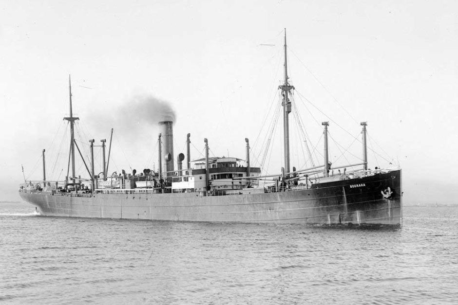 HMT Boorara formerly the SS Pfalz